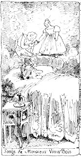 Mr.Vieŭ Bois' dream by Rodolphe Töpffer